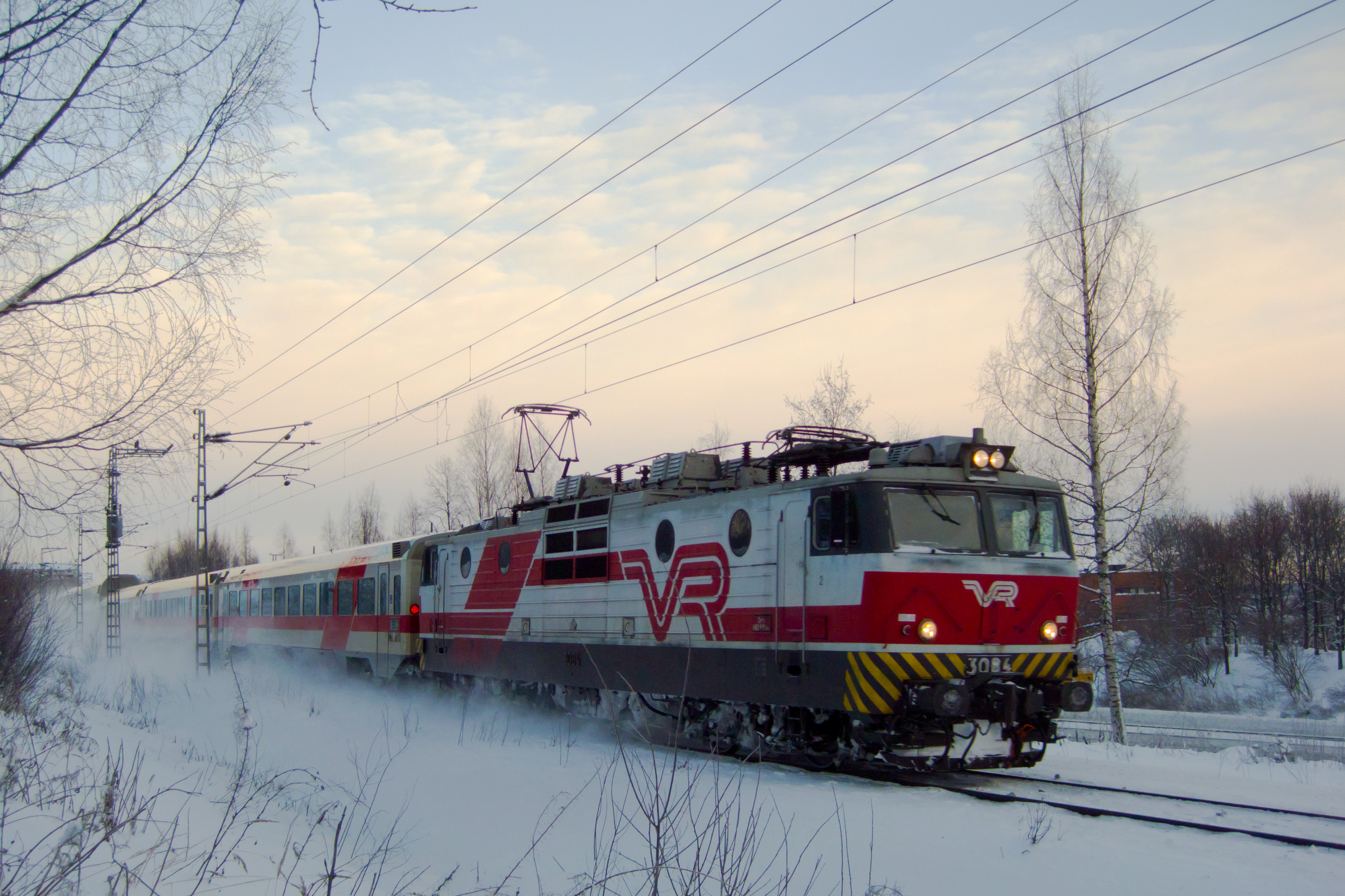 Intercity train 922 leaves Jyväskylä towards Tampere and Turku.